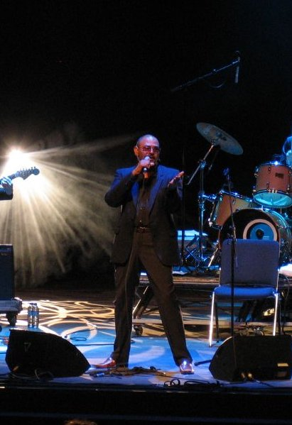 Barry Adamson performing live